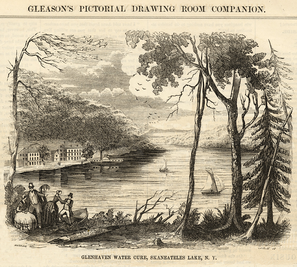 This is a copy of an engraving published in 1852 in Gleason's Pictorial Drawing Room Companion. It shows the Glen Haven Water Cure spa on Skaneateles Lake, Onondaga County, N.Y., which was operated by abolitionists William L. Chaplin and Theodosia Gilbert Chaplin.